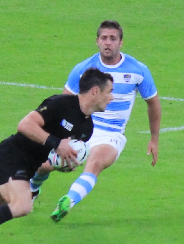 15-09 RWC New Zealand vs Argentina 103